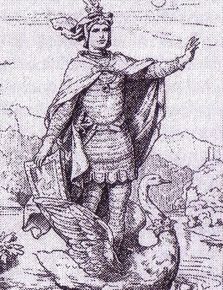 Paul of Thurn and Taxis as Lohengrin; performed at the occasion of the 20th birthday of the King Ludwig II of Bavaria on August 25, 1865 at the Alpsee in Hohenschwangau. Source